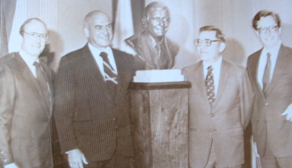 Unveiling the bronze statue of Chris Schaller